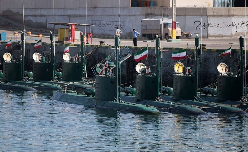 Velayat 94 Military exercise that hold in February 2016 in the range of Strait of Hormuz and northern Indian Ocean